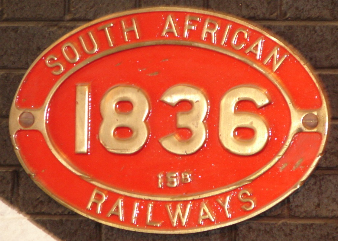 SAR Class 15B no. 1836 (4-8-2) number plateLocation: George, Western Cape